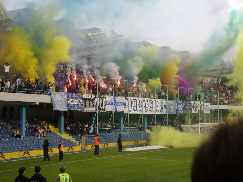 Picture of ultras BP at Stadion Pod Goricom, Montenegro